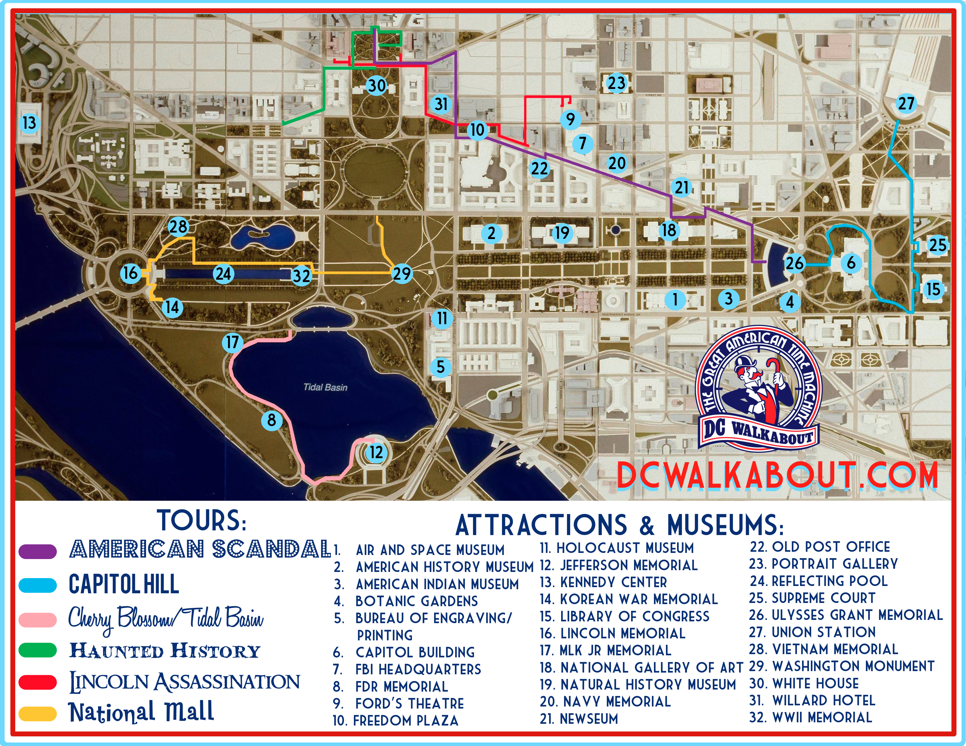 Printable Washington DC Tourist Map showing locations of attractions, monuments, memorials, and government buildings, by DC